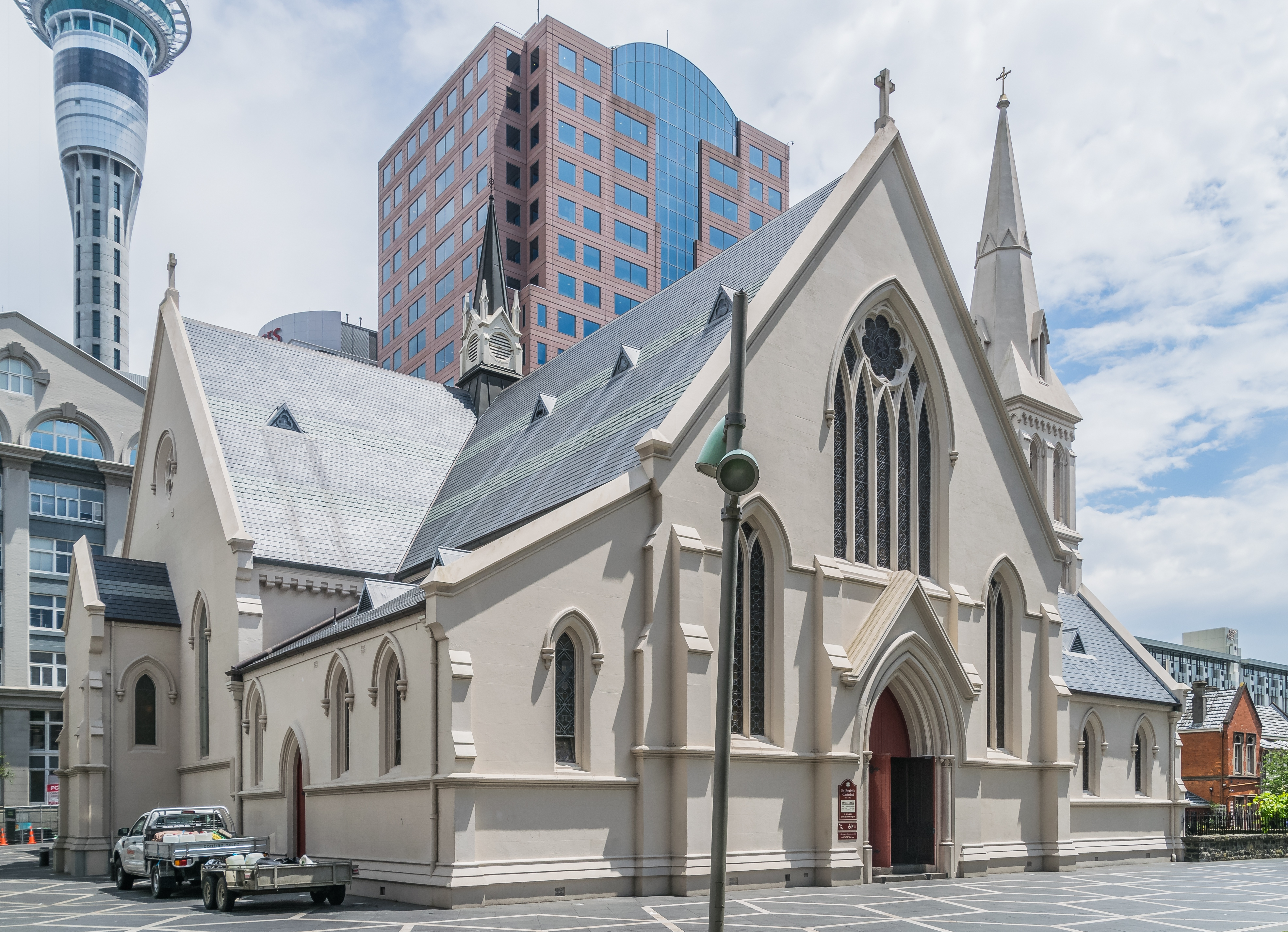 Saint Patrick Cathedral in Auckland, New Zealand